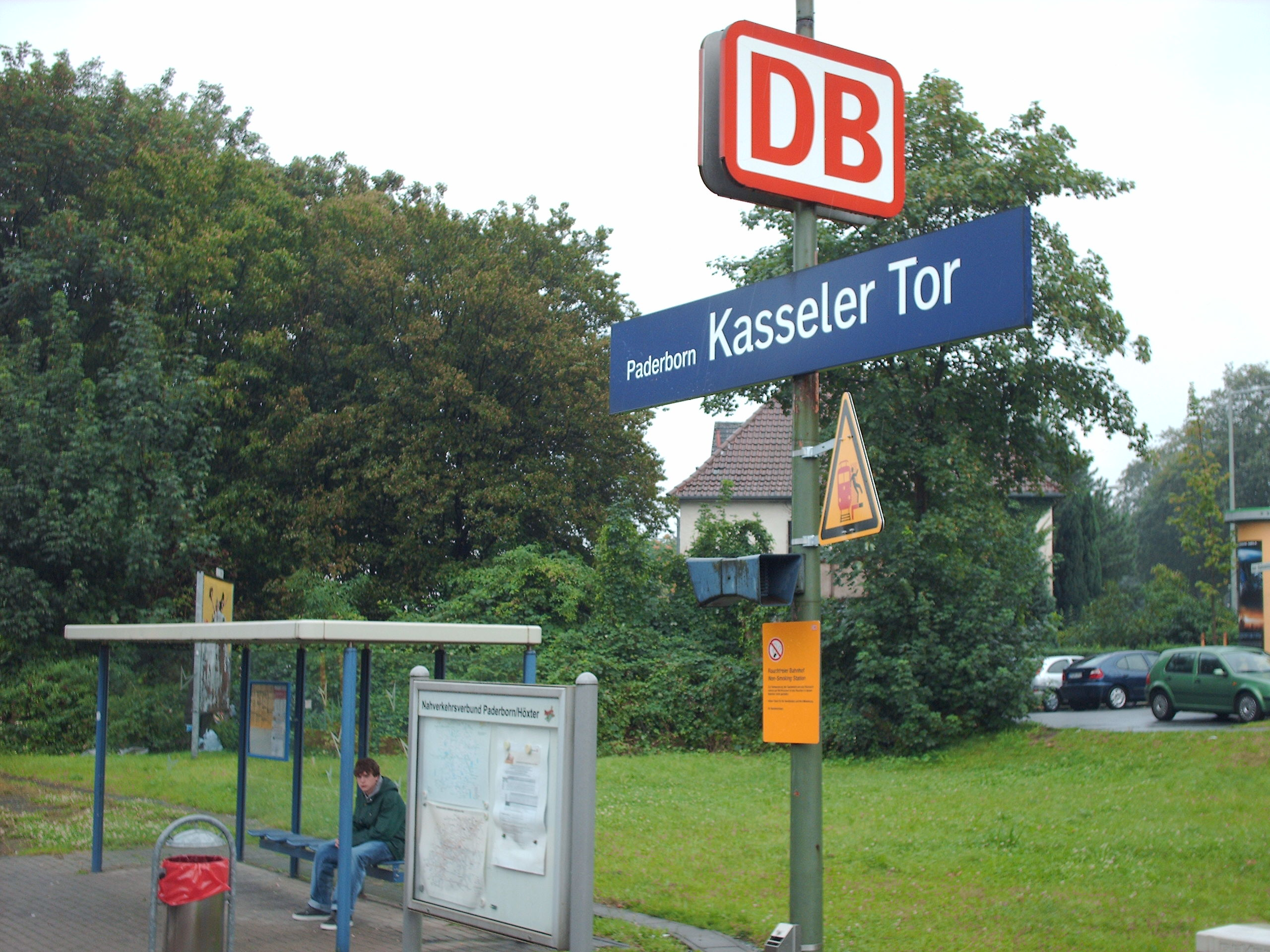 Paderborn Kasseler Tor station, Paderborn, Germany check usage